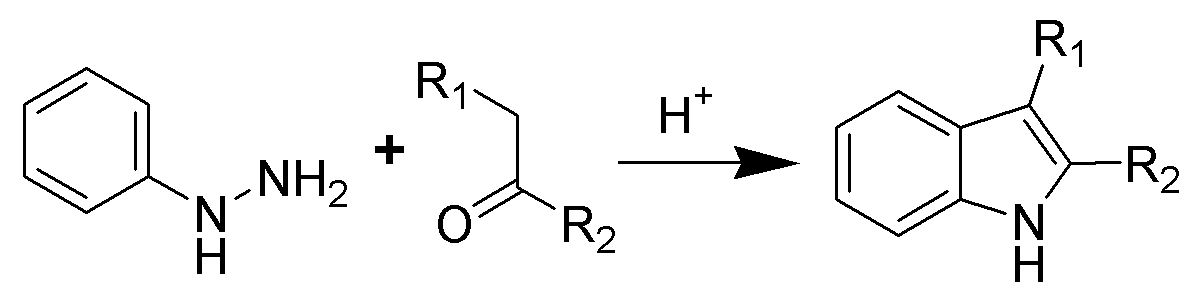 Summary of the Fischer indole synthesis